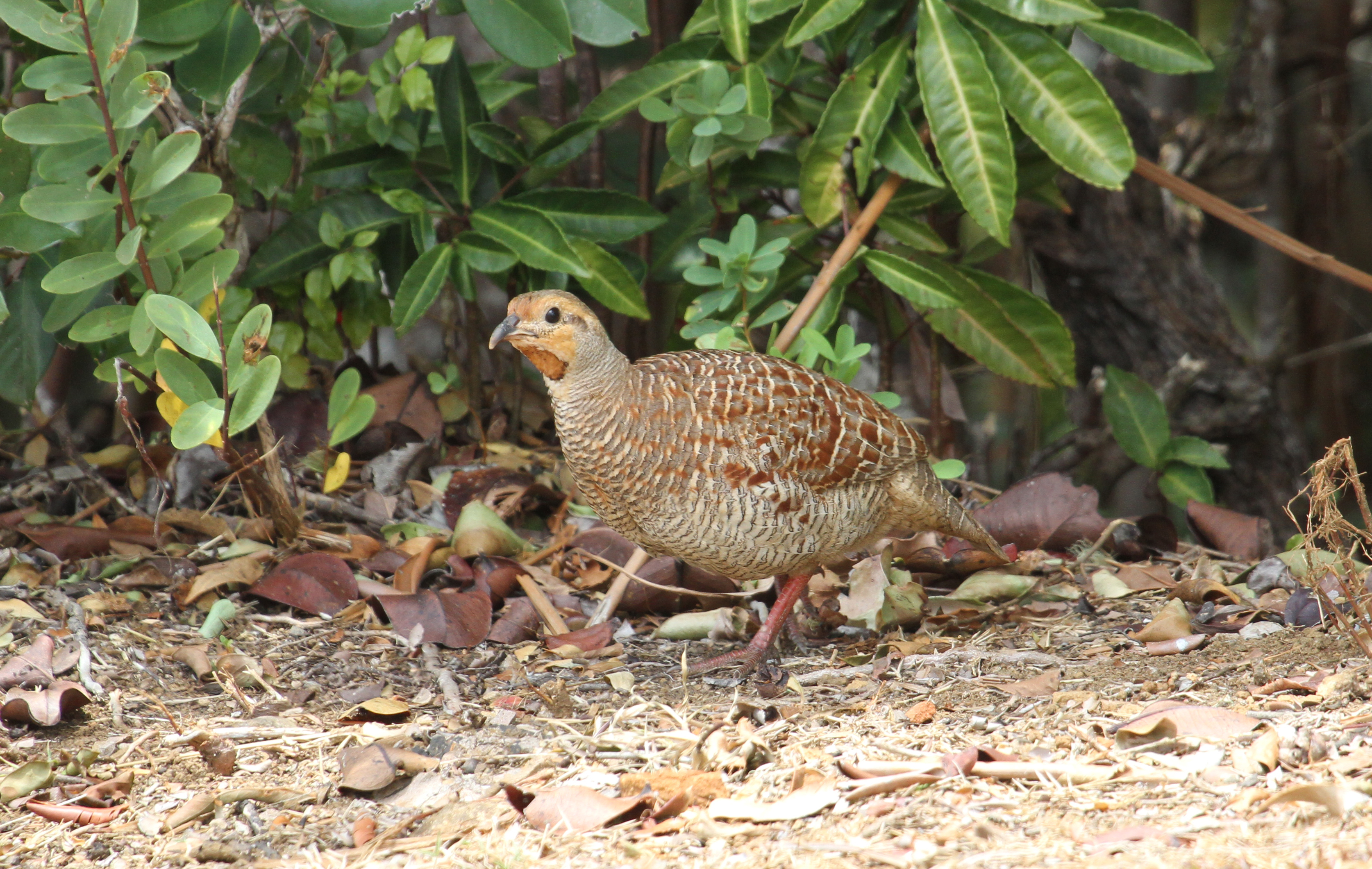 Grey francolin from Mauritius